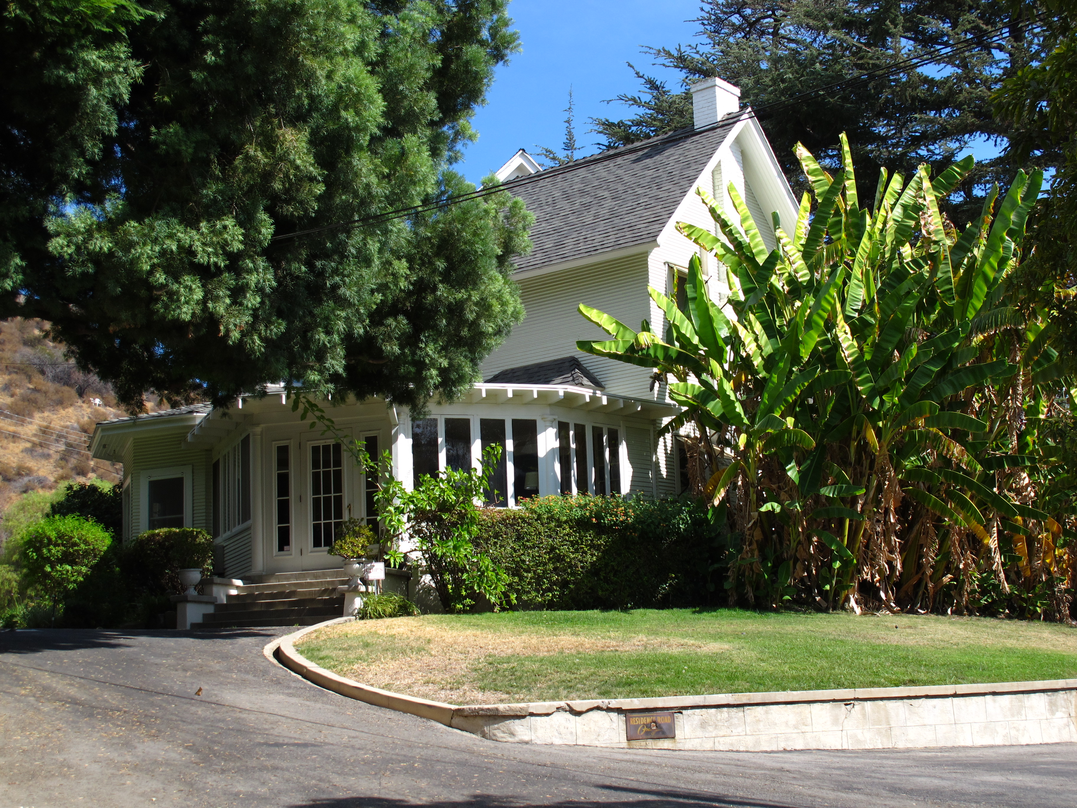 Rear elevation of Ard Eevin, a wood-frame private house in Glendale, California, built in 1903 by architect Nathaniel Dryden. It is in in the Colonial/ West Indies Plantation style with Craftsman elements.[1]